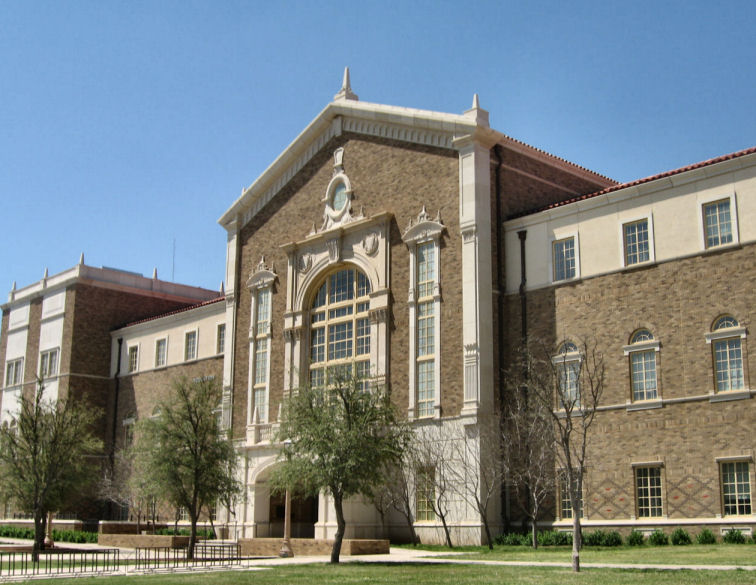 The Texas Tech University College of Education at Texas Tech University in Lubbock, Texas, United States.